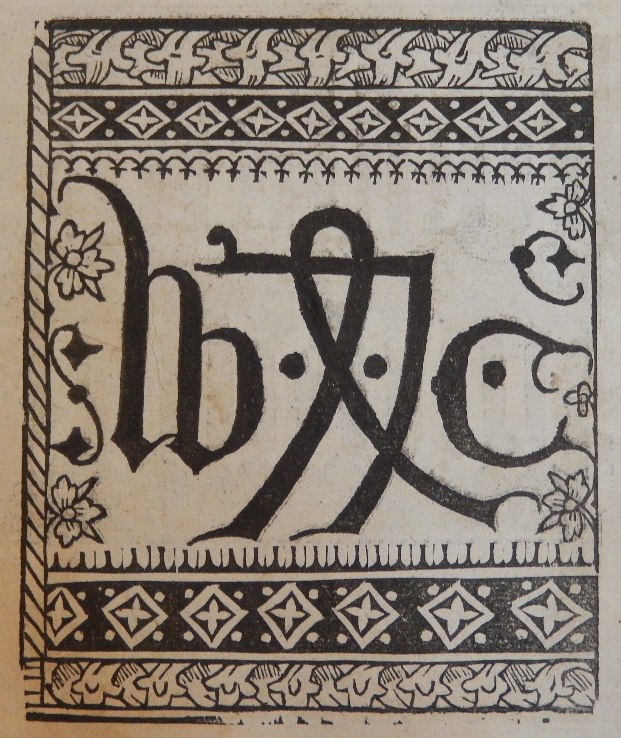 The printer's mark of William Caxton. Late 15th century. Reading University Special Collections JGL 1/2/3.